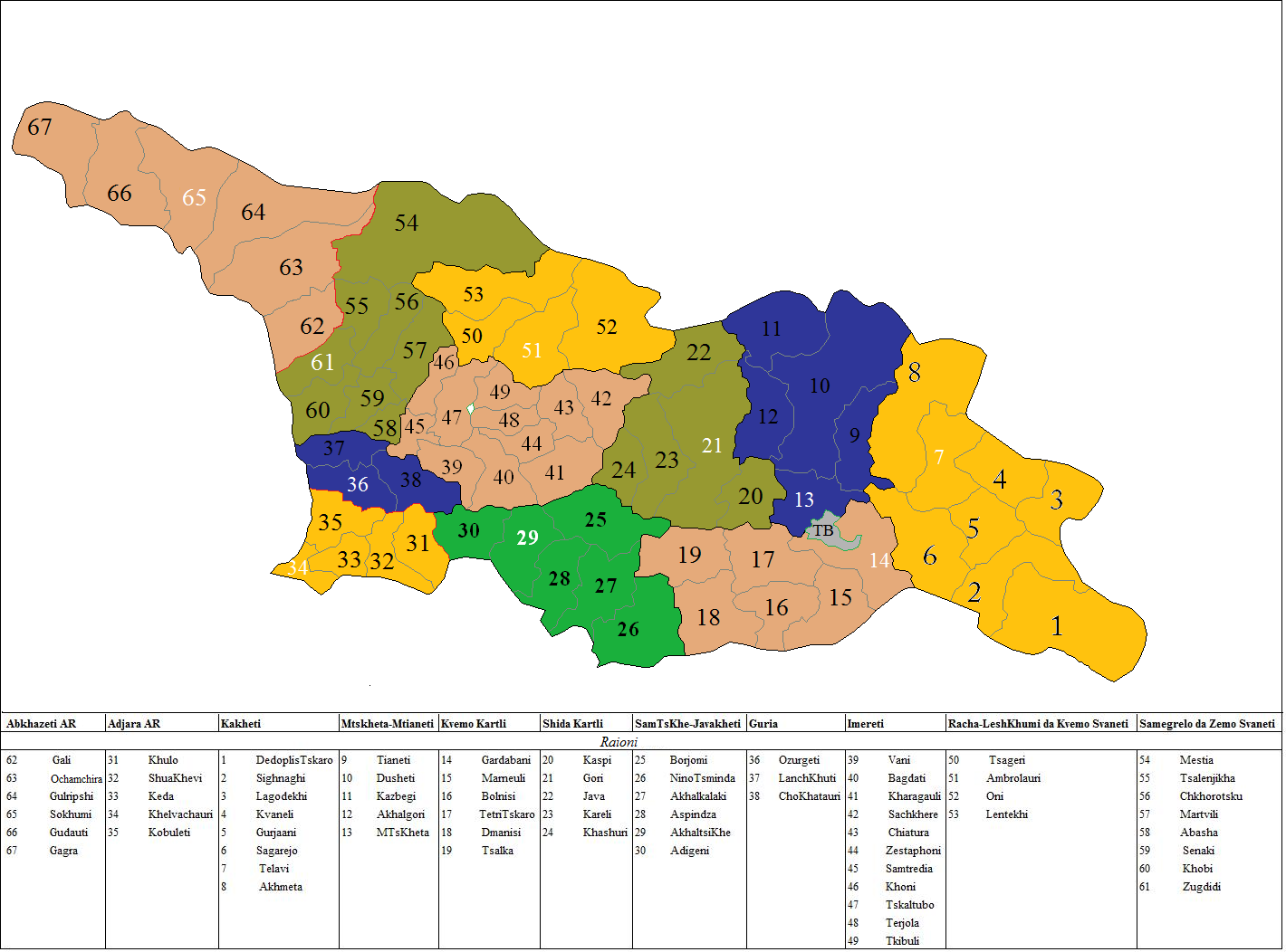 Map of the districts of the country of Georgia.